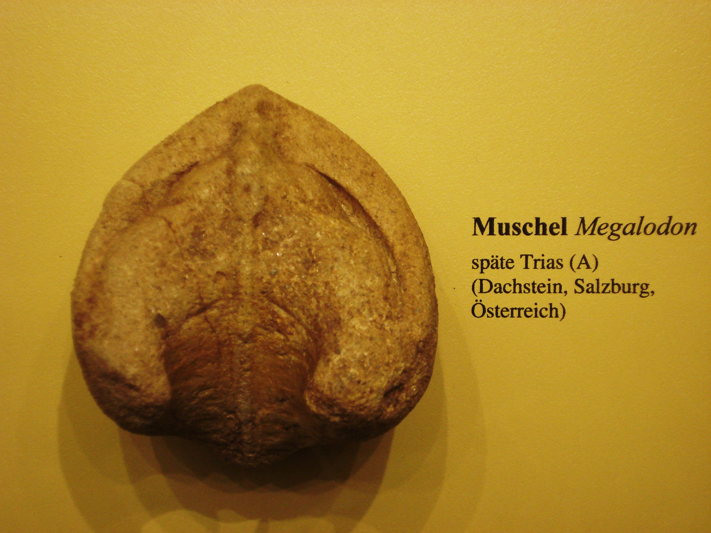 fossil of Megalodon an extinct bivalve